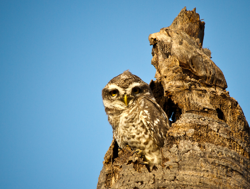 Spotted Owlet Athene brama basking in the late evening sunlight. A nocturnal bird, commonly found in India.